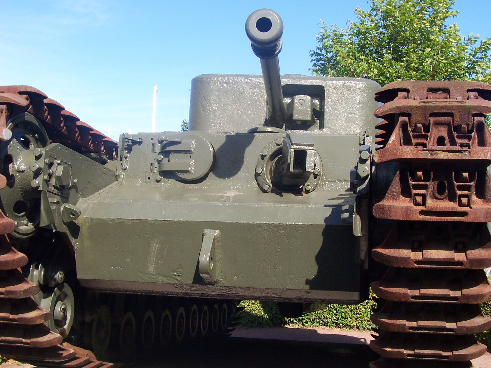 Front view of Churchill Crocodile Flame Throwing tank, taken by user King nothing at Bayeux war museum.